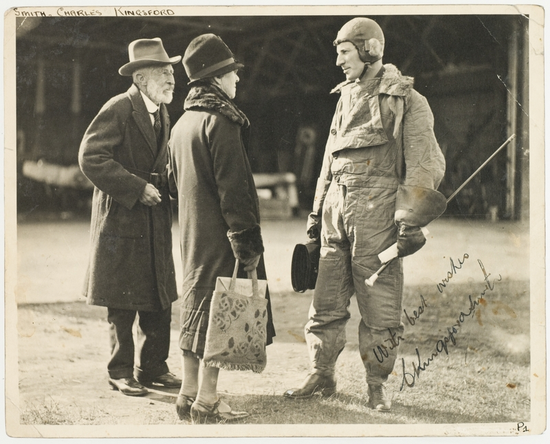 Charles Kingsford-Smith with his Mother and Father, 1928. State Library of New South Wales Call Number P1 / 1593.